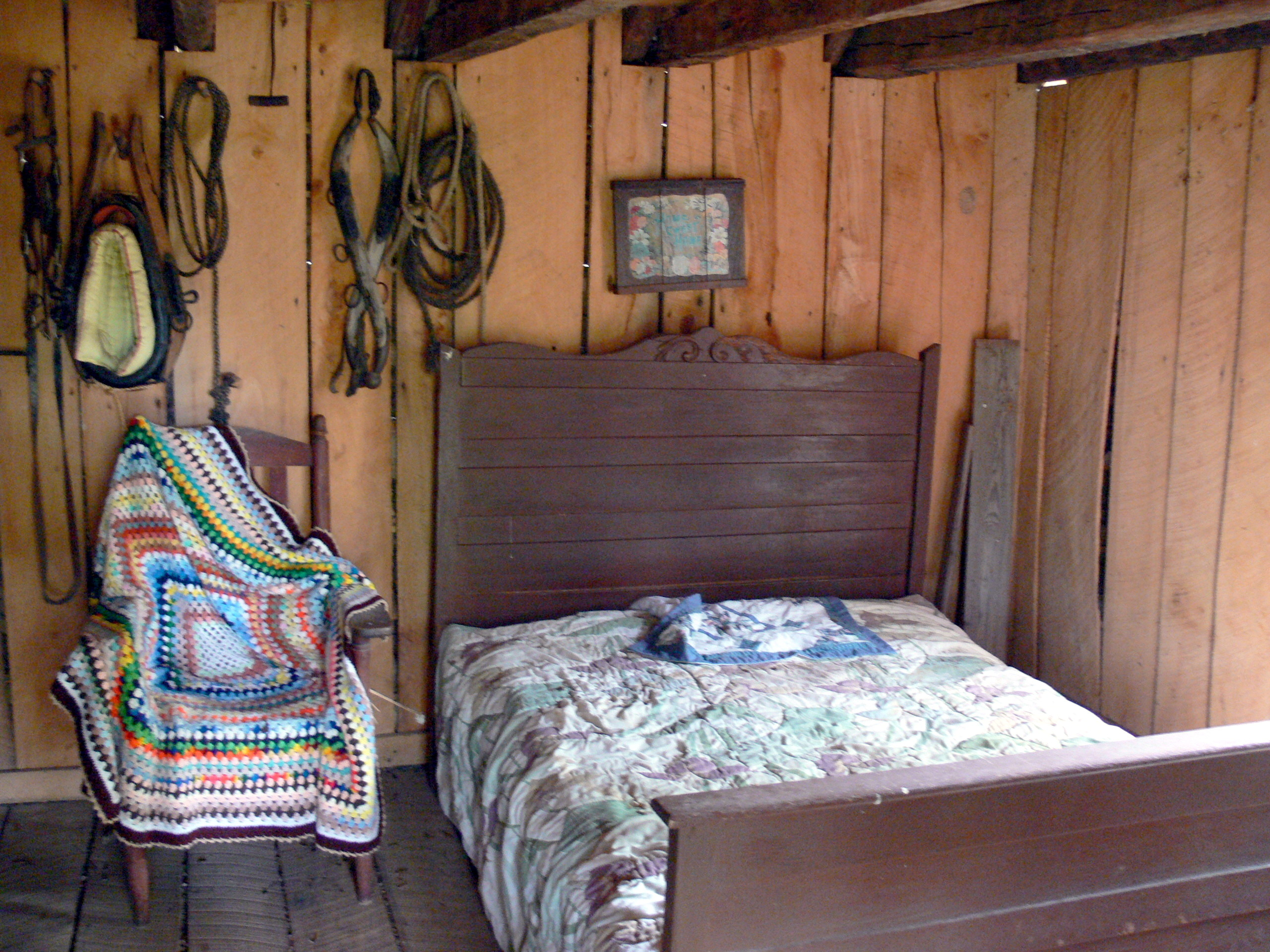 Cherokee Heritage Center ( Tahlequah / Oklahoma ). Adams Corner village: Log cabin ( early 19th century ) - bedroom.